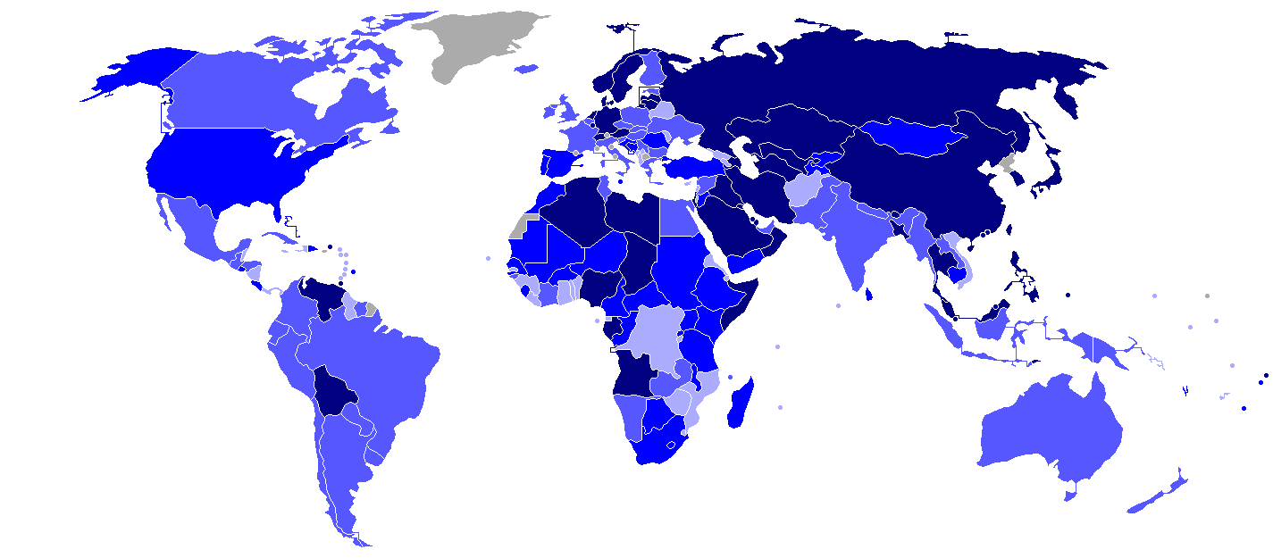 current account balance as percent of GDP from CIA World Factbook 2010 data Quartiles: -83.90% to -8.65% -8.65% to -3.29% -3.29% to 2.39% 2.39% to 188.47%